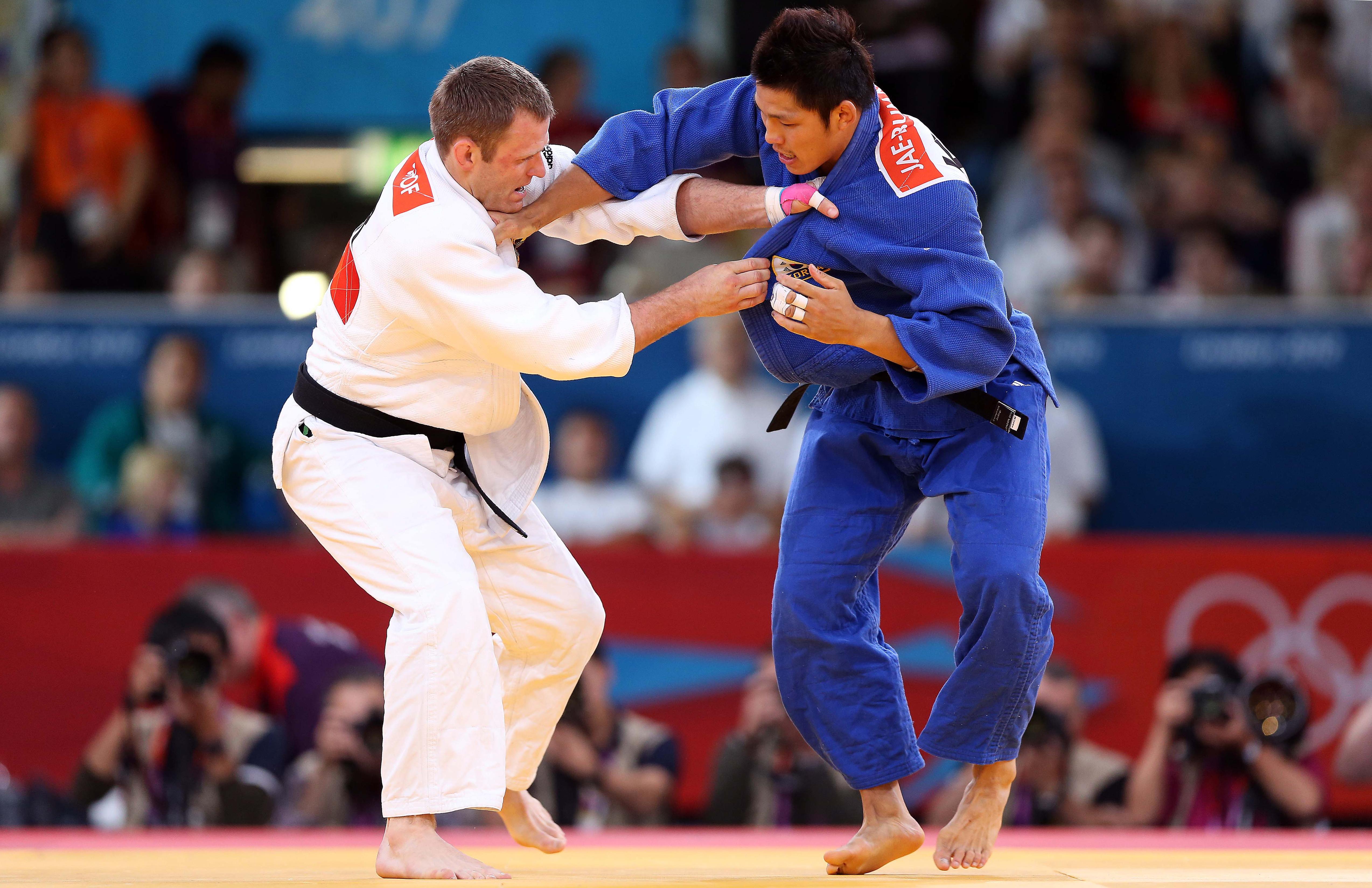 2012 London Olympic Games. Korea Judo, Kim Jae-bum won the gold medal -81kg match